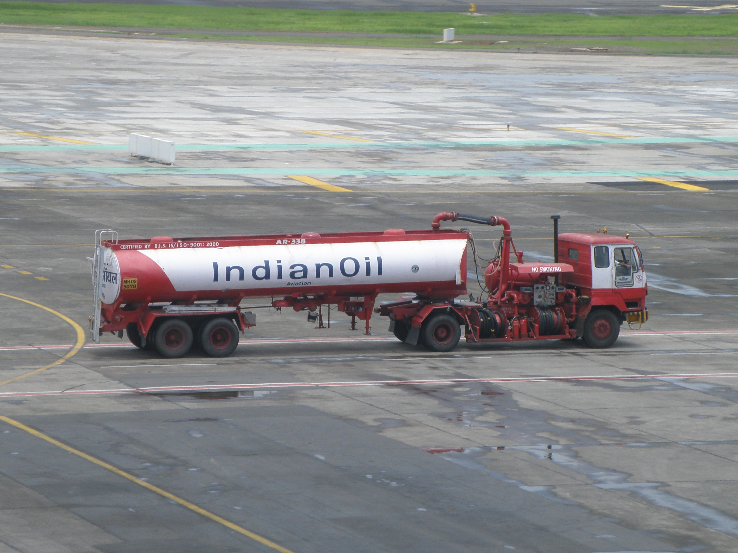 IndianOil tanker in front of terminal 1C of Chhatrapati Shivaji International Airport